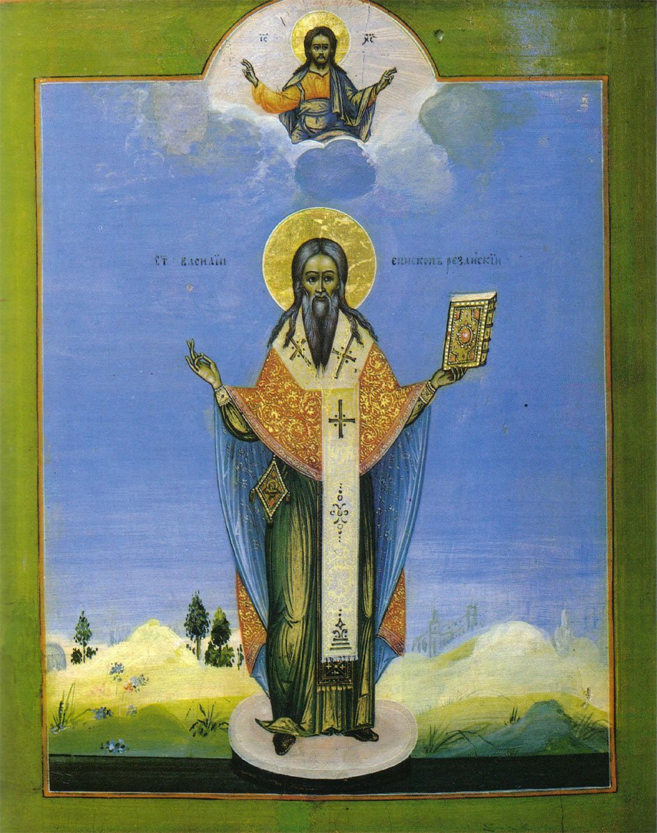 St. Vasily of Ryazan